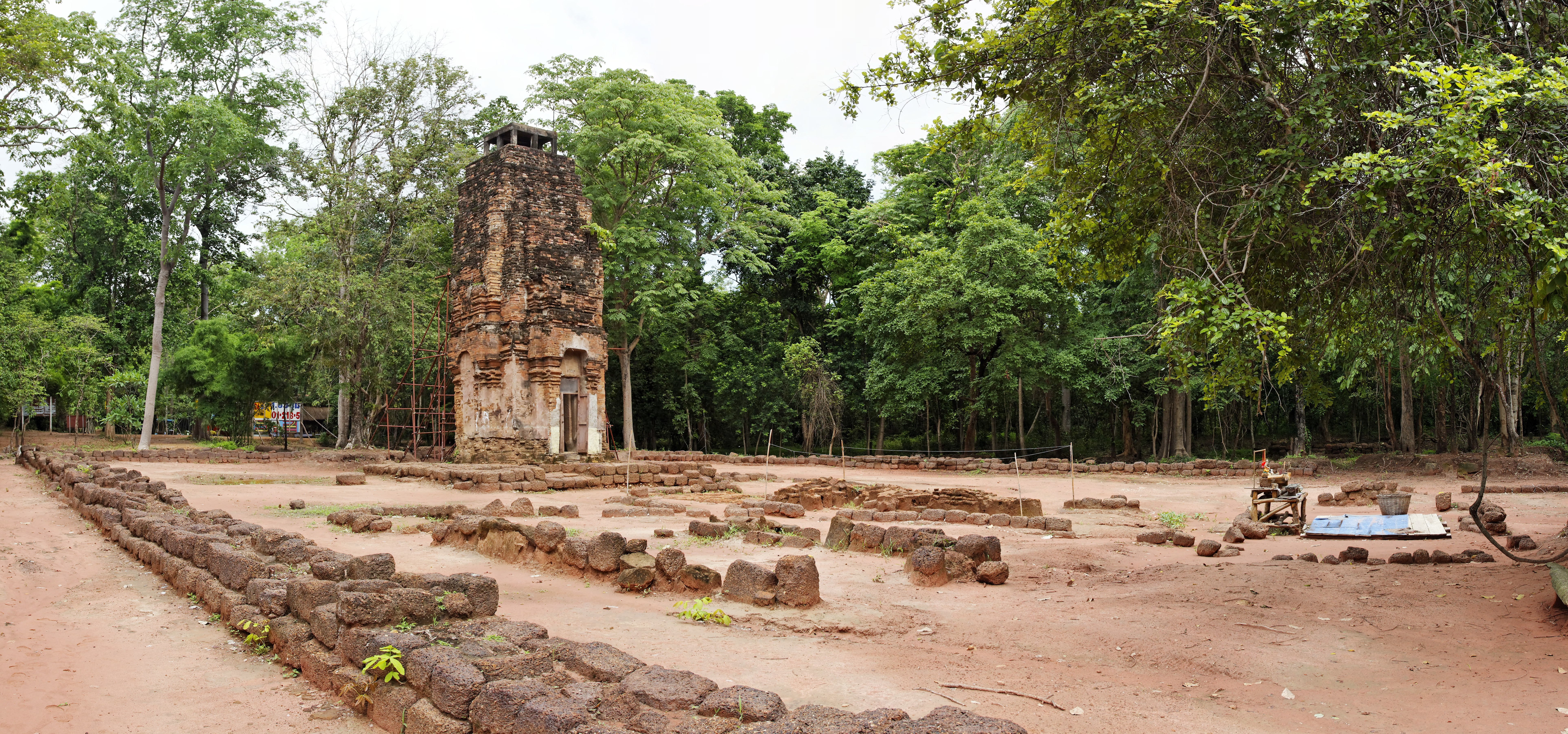 Prang Ruesi, Si Thep Historical Park, Si Thep District, Phetchabun Province, Thailand